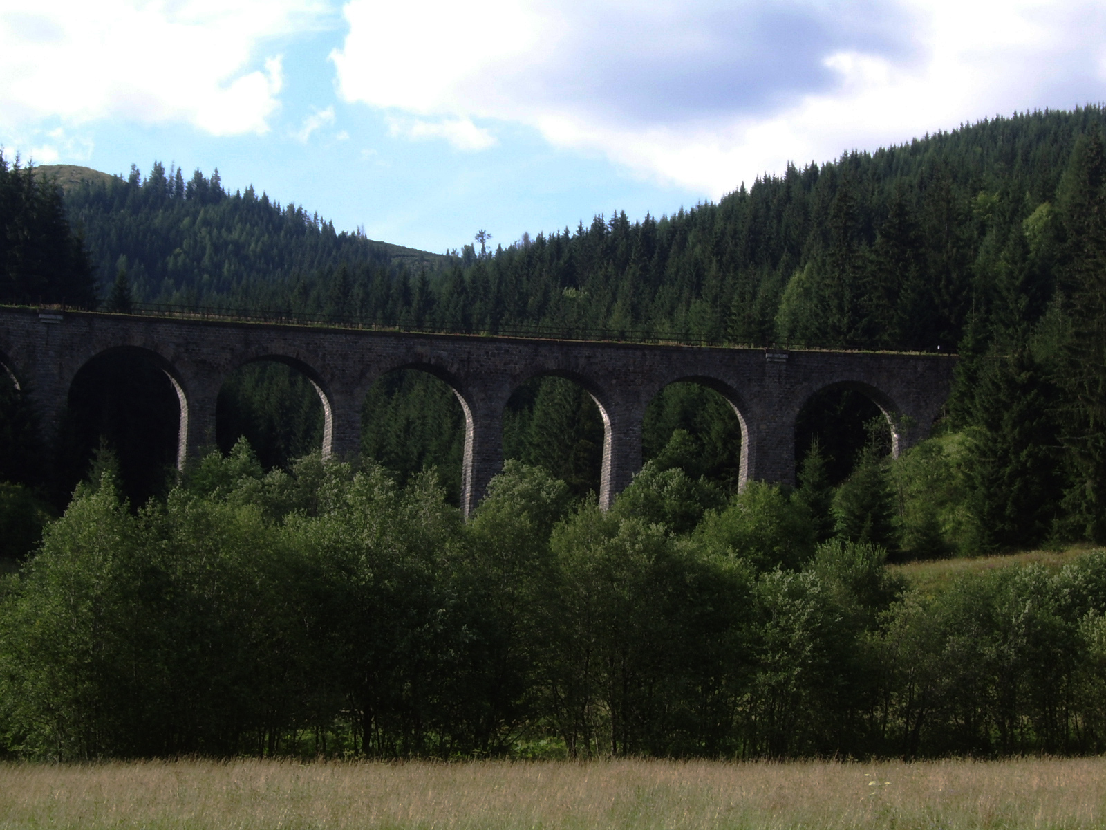 Old Railway viaduct, Telgárt, Slovakia